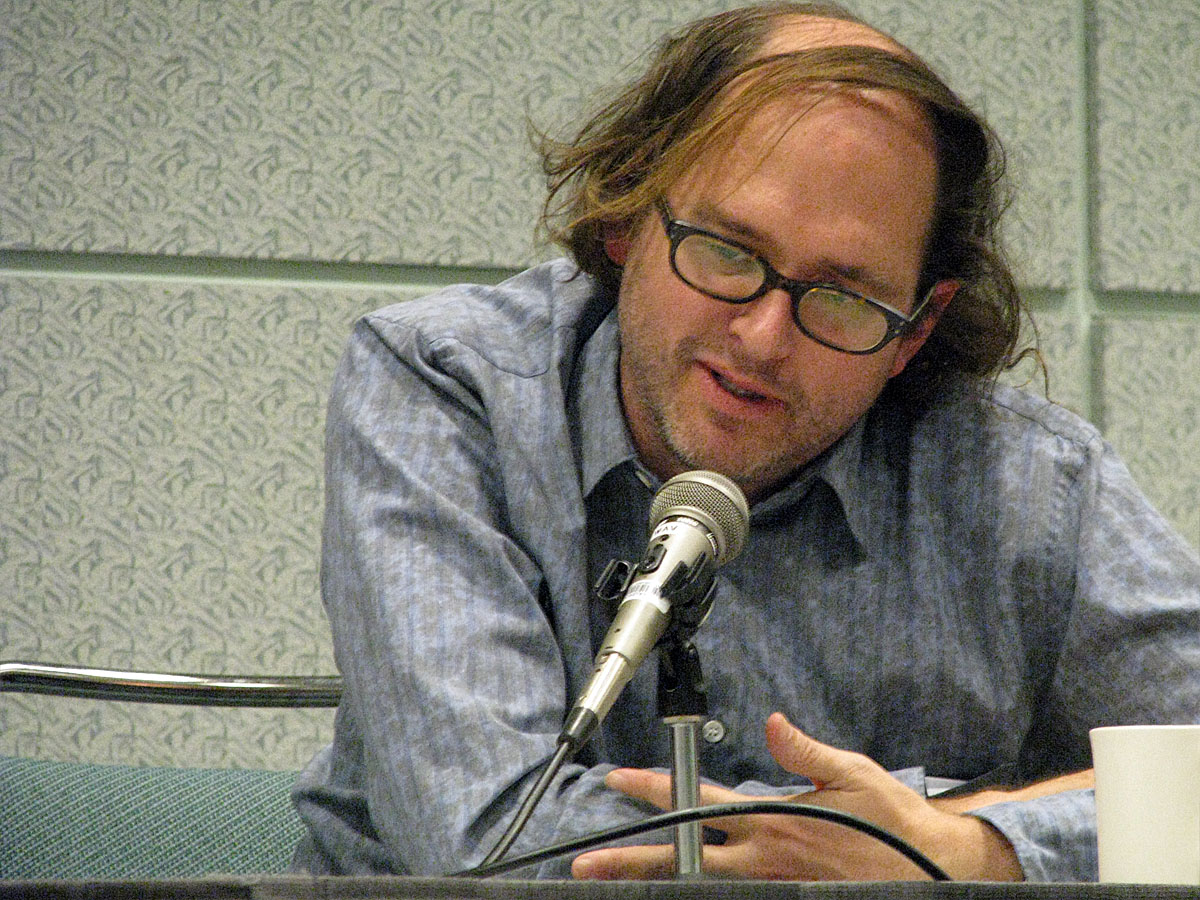 Heathers screenwriter Daniel Waters When he stood up, some of his hair flew back and his balding was exposed.